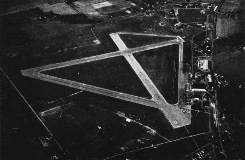 Aerial view of the U.S. Naval Air Station Willow Grove, Pennsylvania (USA), in the 1940s.